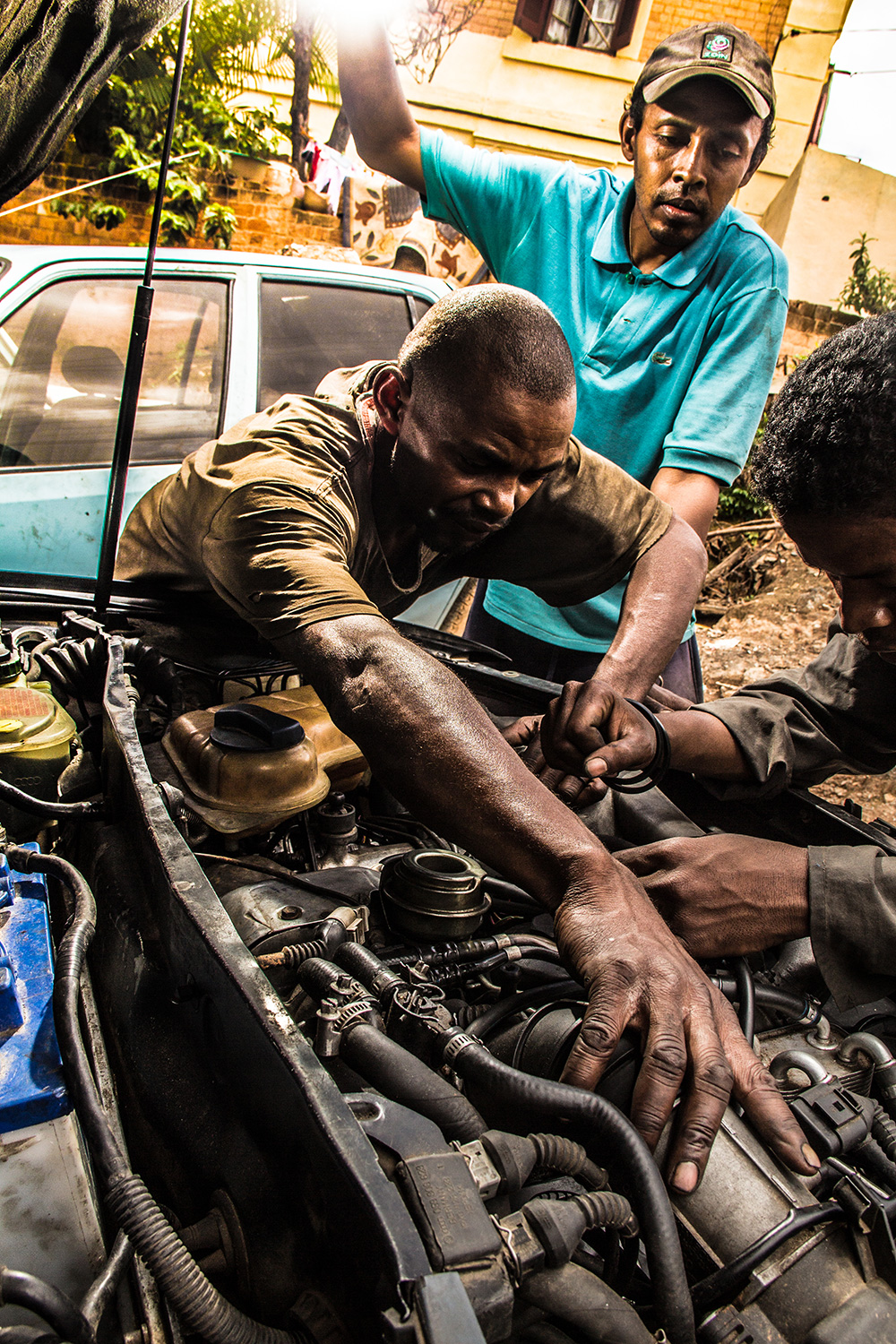 Some mechanics trying to fix a problem This is an image of "African people at work" from Madagascar